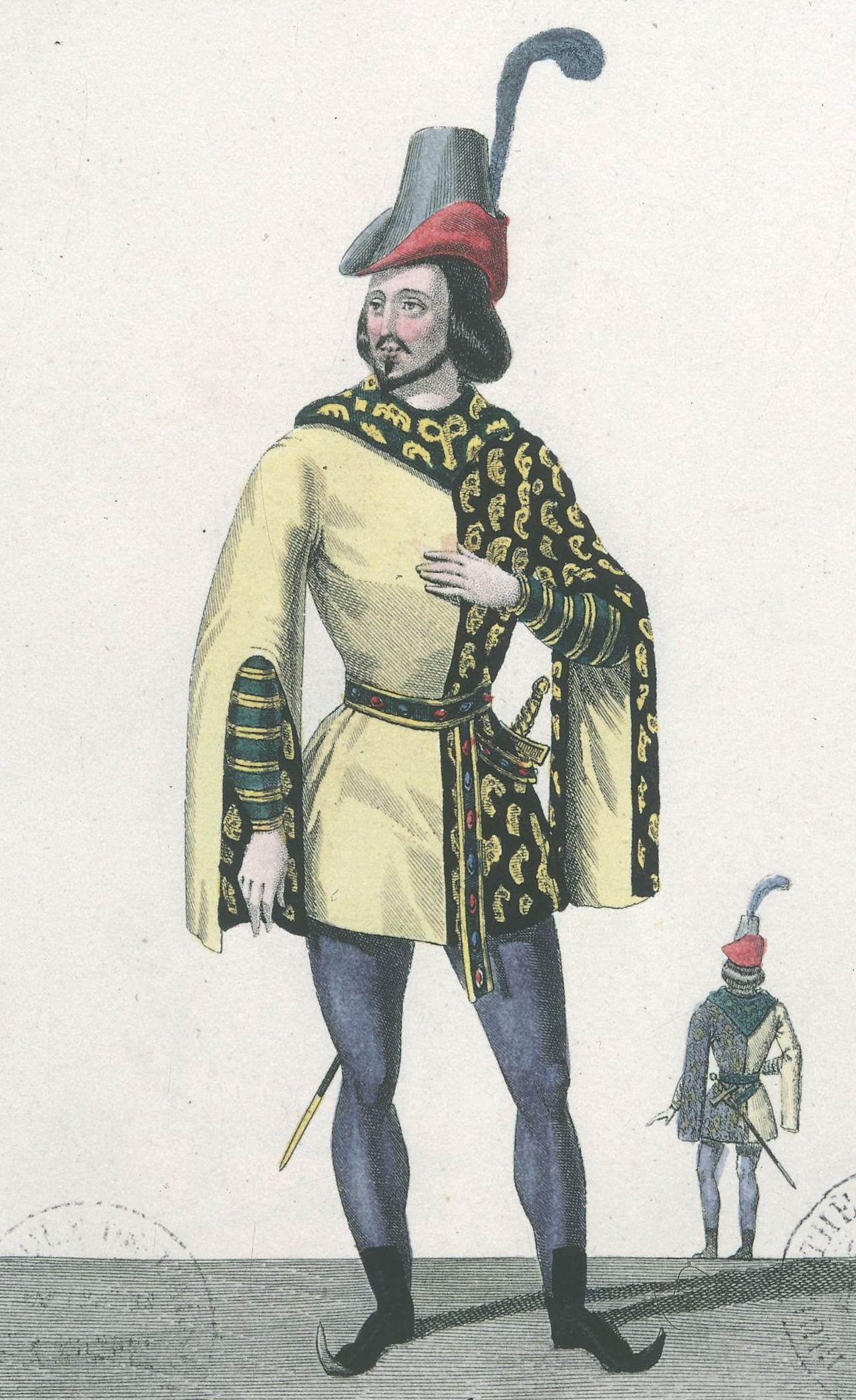 Costume of character Buridan, by French actor Bocage, in the play "La Tour de Nesle" by Alexandre Dumas, Paris, 1832